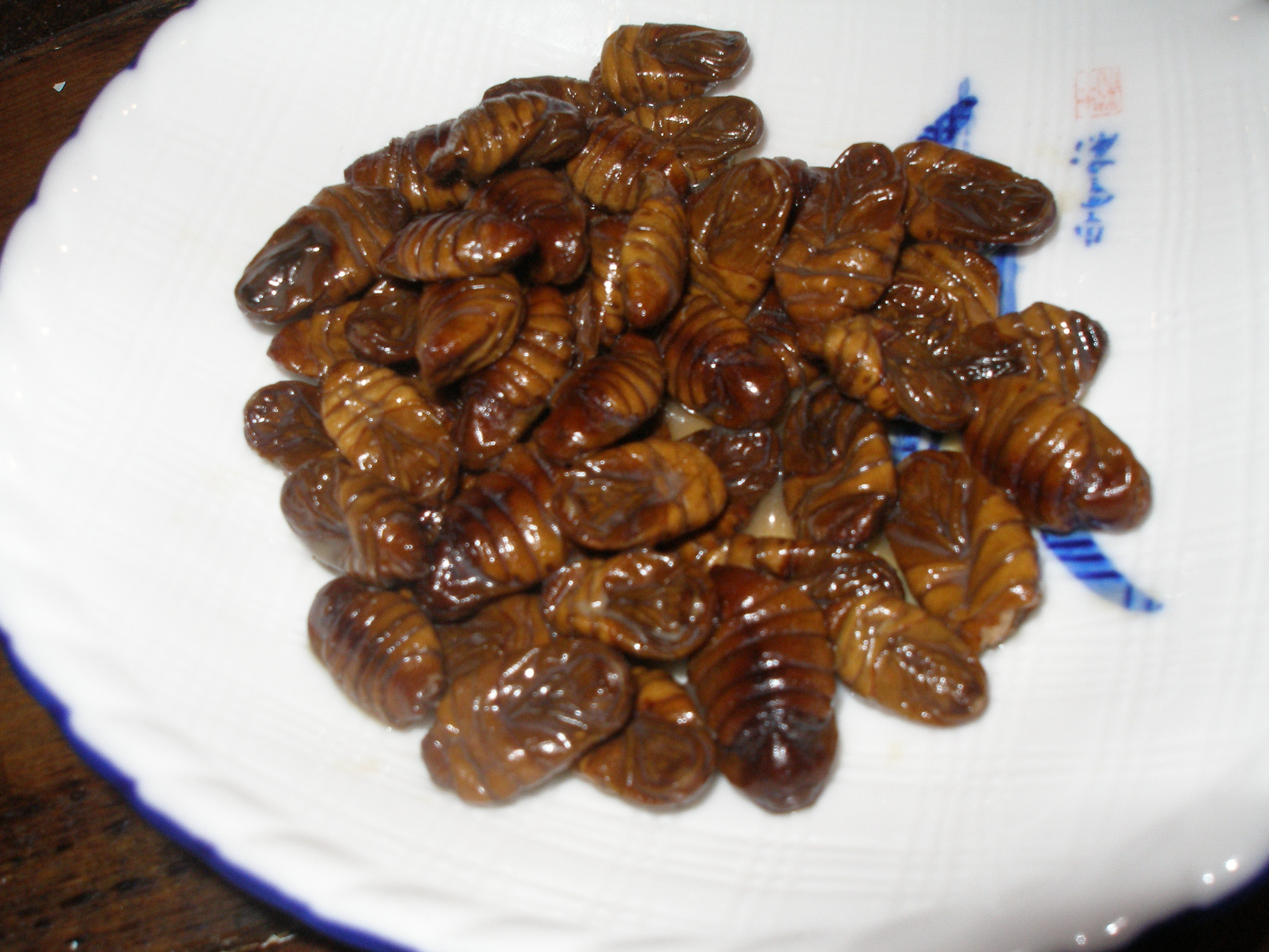 Korean steamed Silk worm pupae.